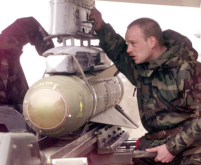 GIOIA DEL COLLE, Italy -- Staff Sgt. Todd Kenny helps position an AGM-65 Maverick missile underneath the wing of an A-10 Thunderbolt II. Kenny, of Lake Luzerene, New York, is part of the 81st Expeditionary Fighter Squadron. The 81st EFS is based at Spangdahlem Air Base, Germany, and is supporting NATO Operation Allied Force.